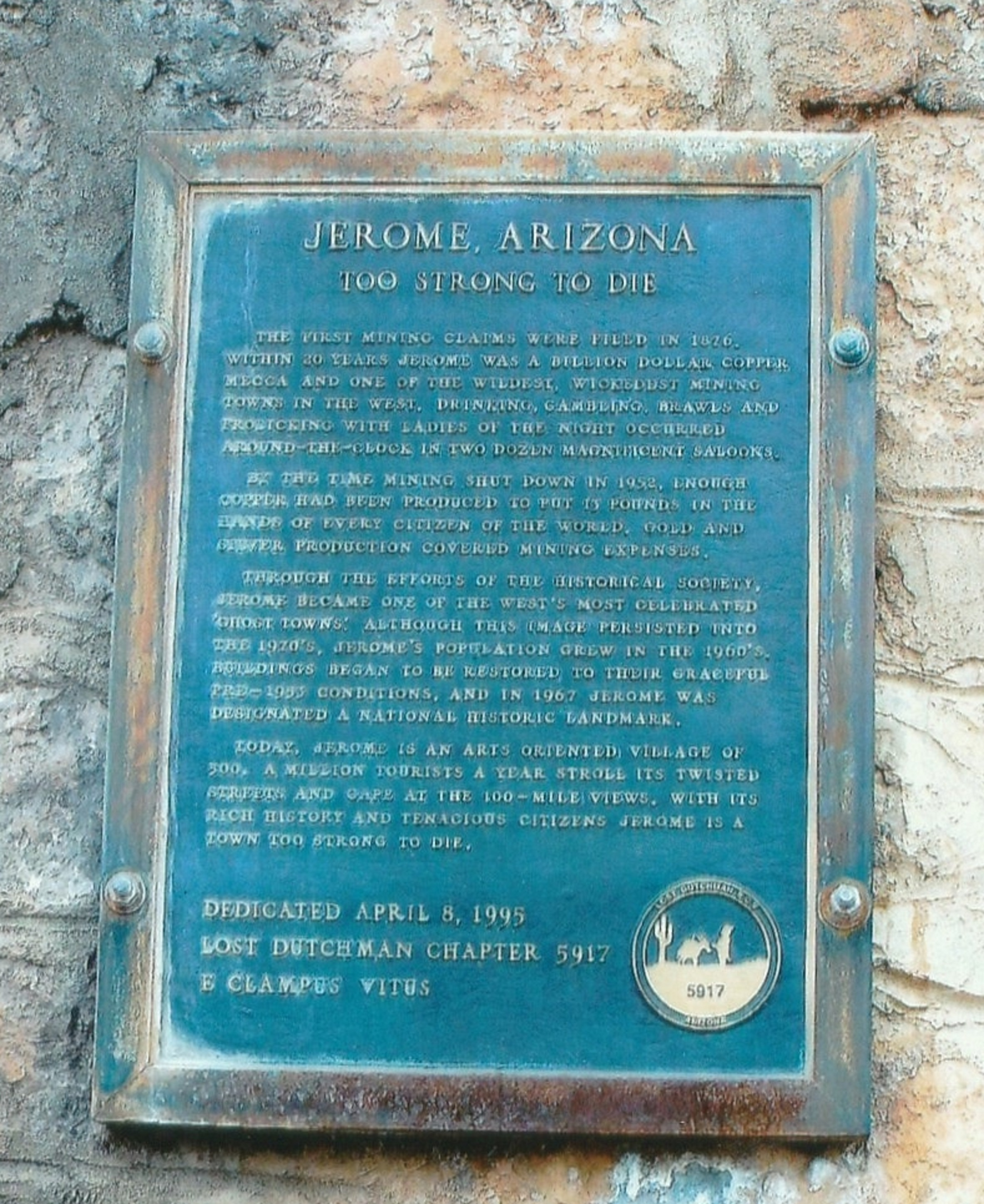 Jerome Marker In Jerime, Az.